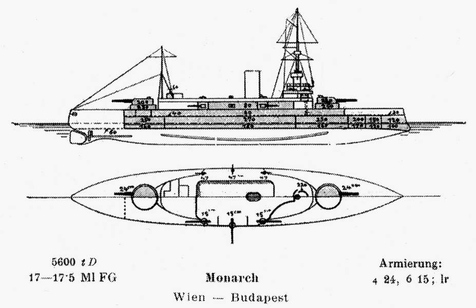 Monarch-class battleship drawing.